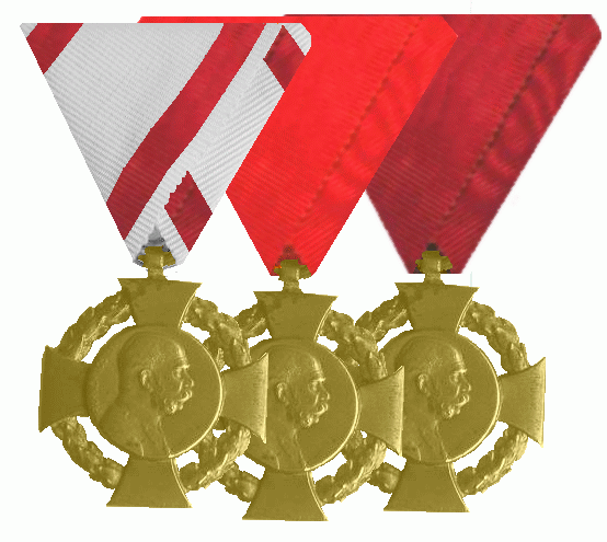 Three times the Jubilee Cross